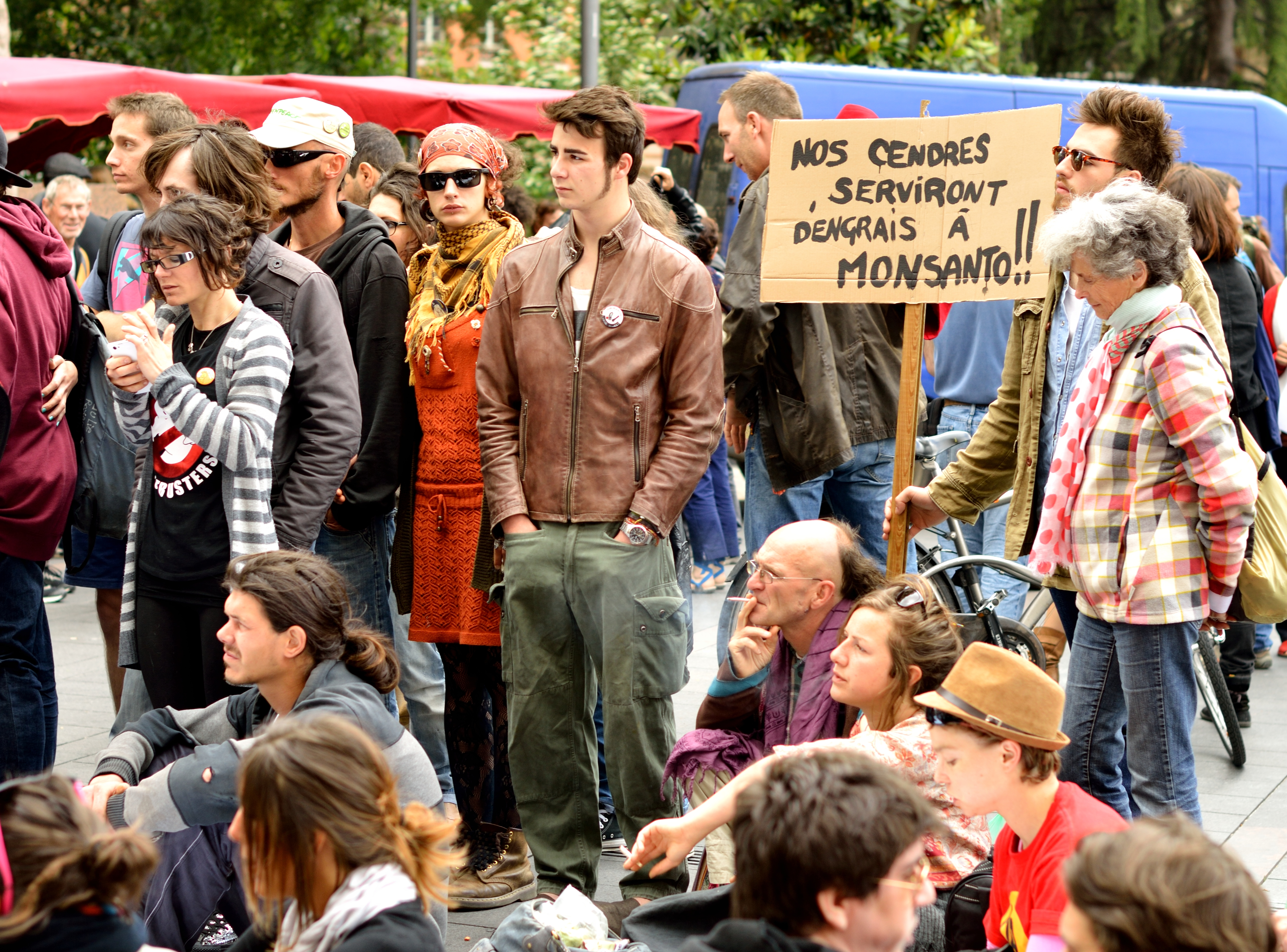 Rassemblement toulousain contre Monsanto.